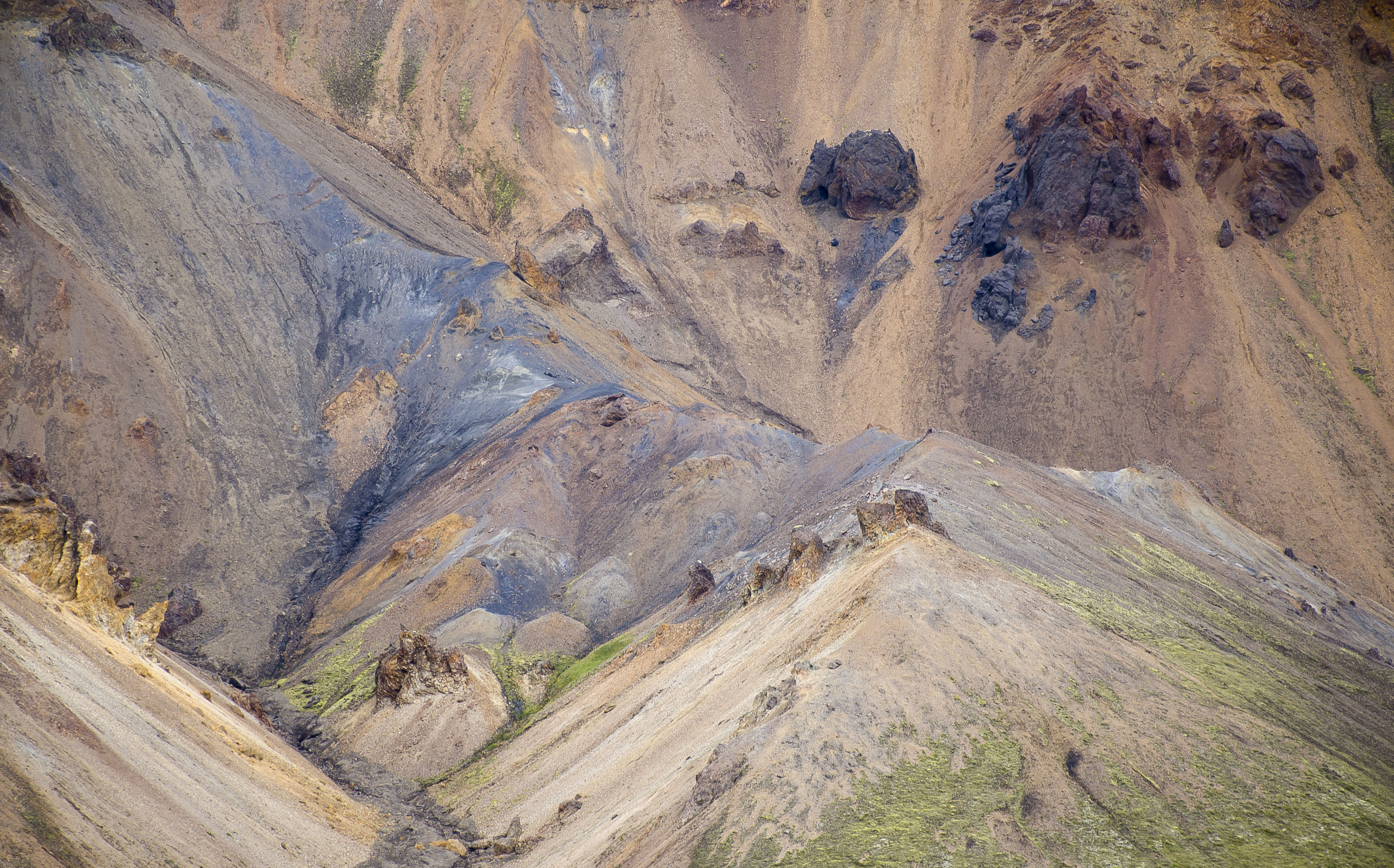 Landmannalaugar, South Iceland